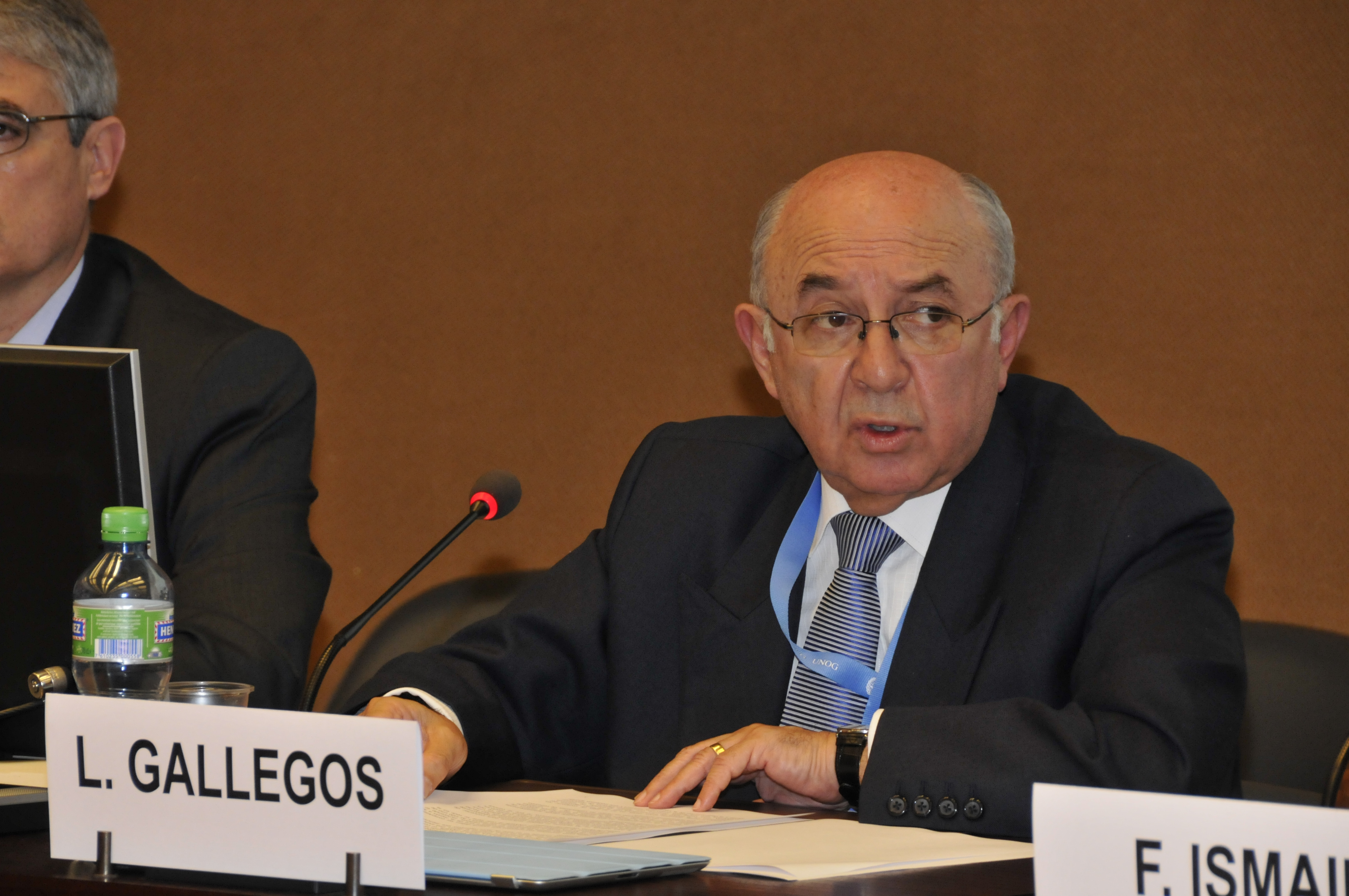 H.E. Mr. Luis Gallegos, Permanent Representative of Ecuador